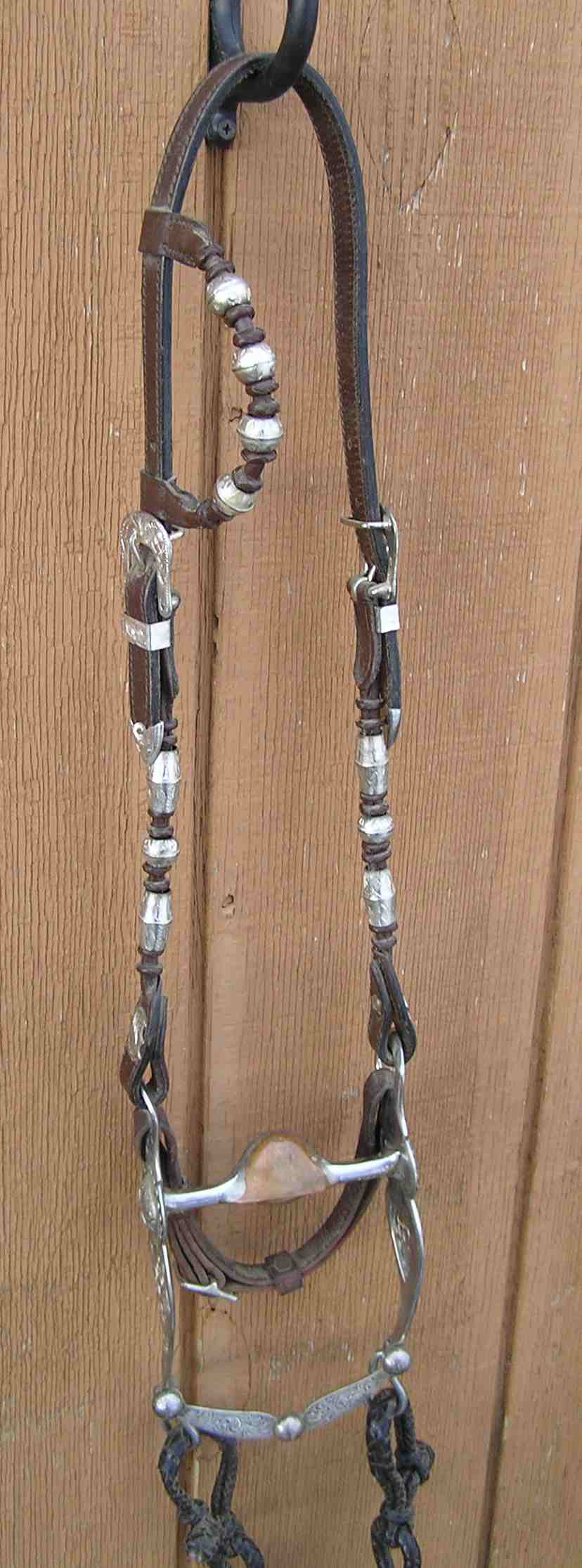 A western style "split ear" or "one ear" bridle with decorative silver added for show